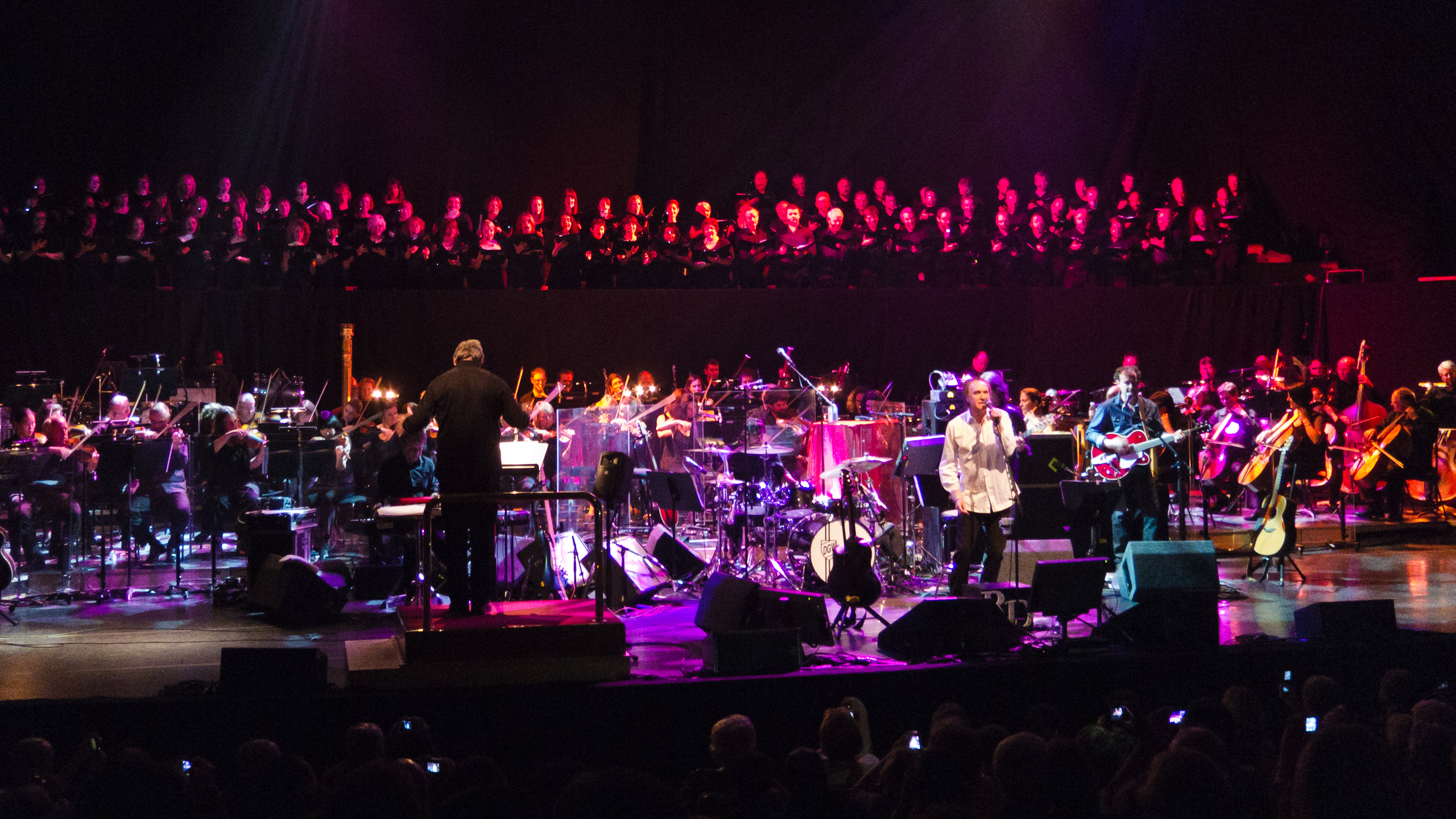 with band, orchestra and choir.